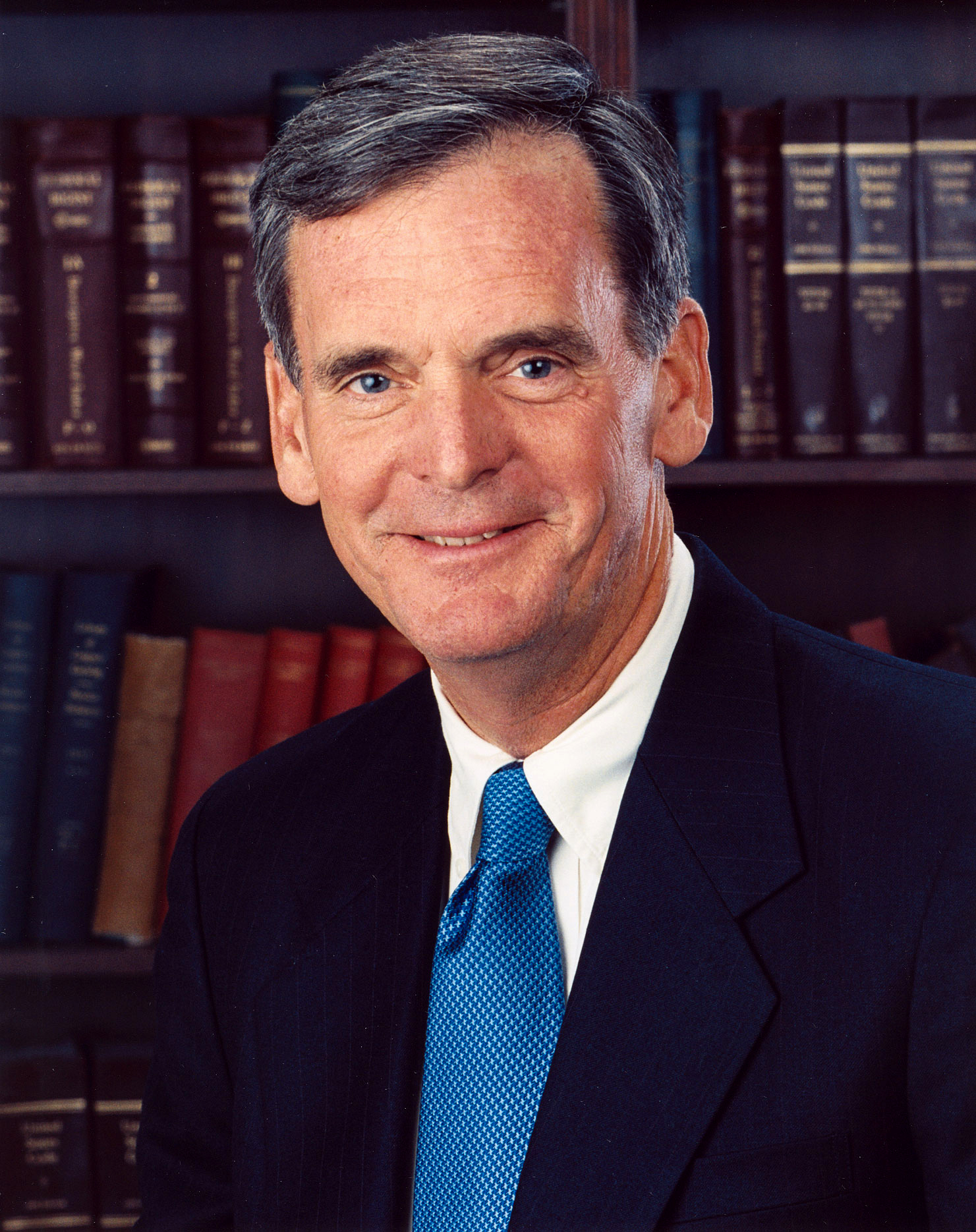 Judd Gregg, U.S. Senator from New Hampshire.